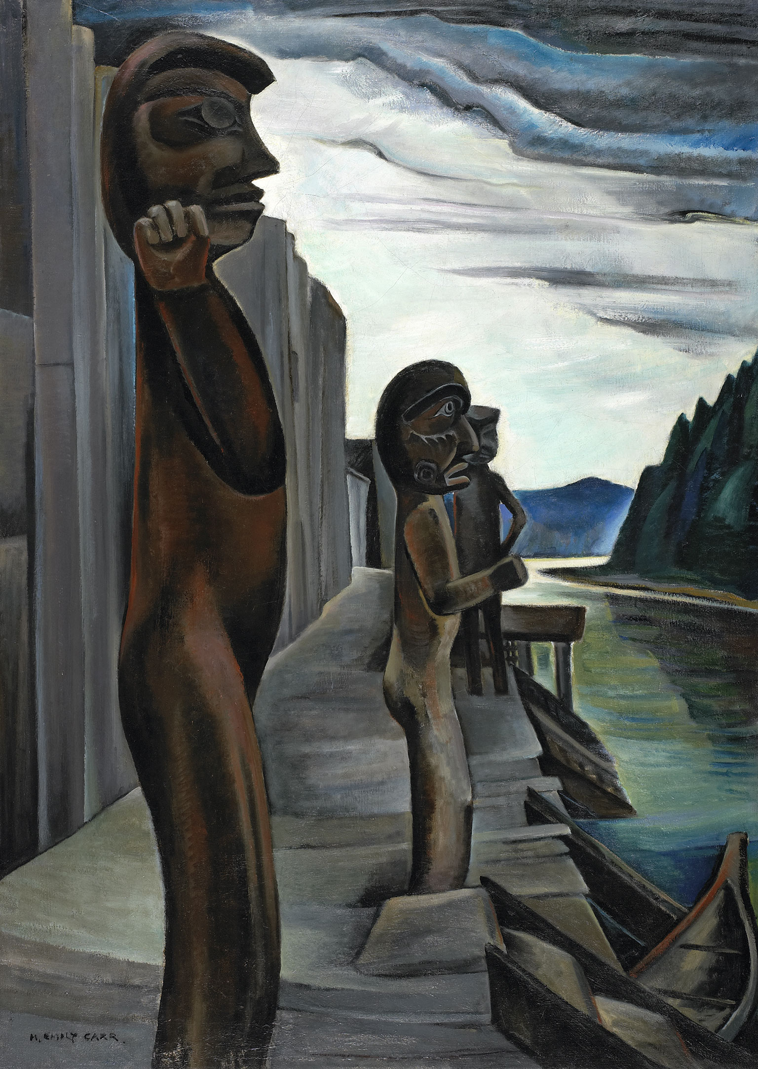 Blunden Harbour is a Kwatiutl village on the B.C. mainland coast, at the mouth of the Queen Charlotte Strait